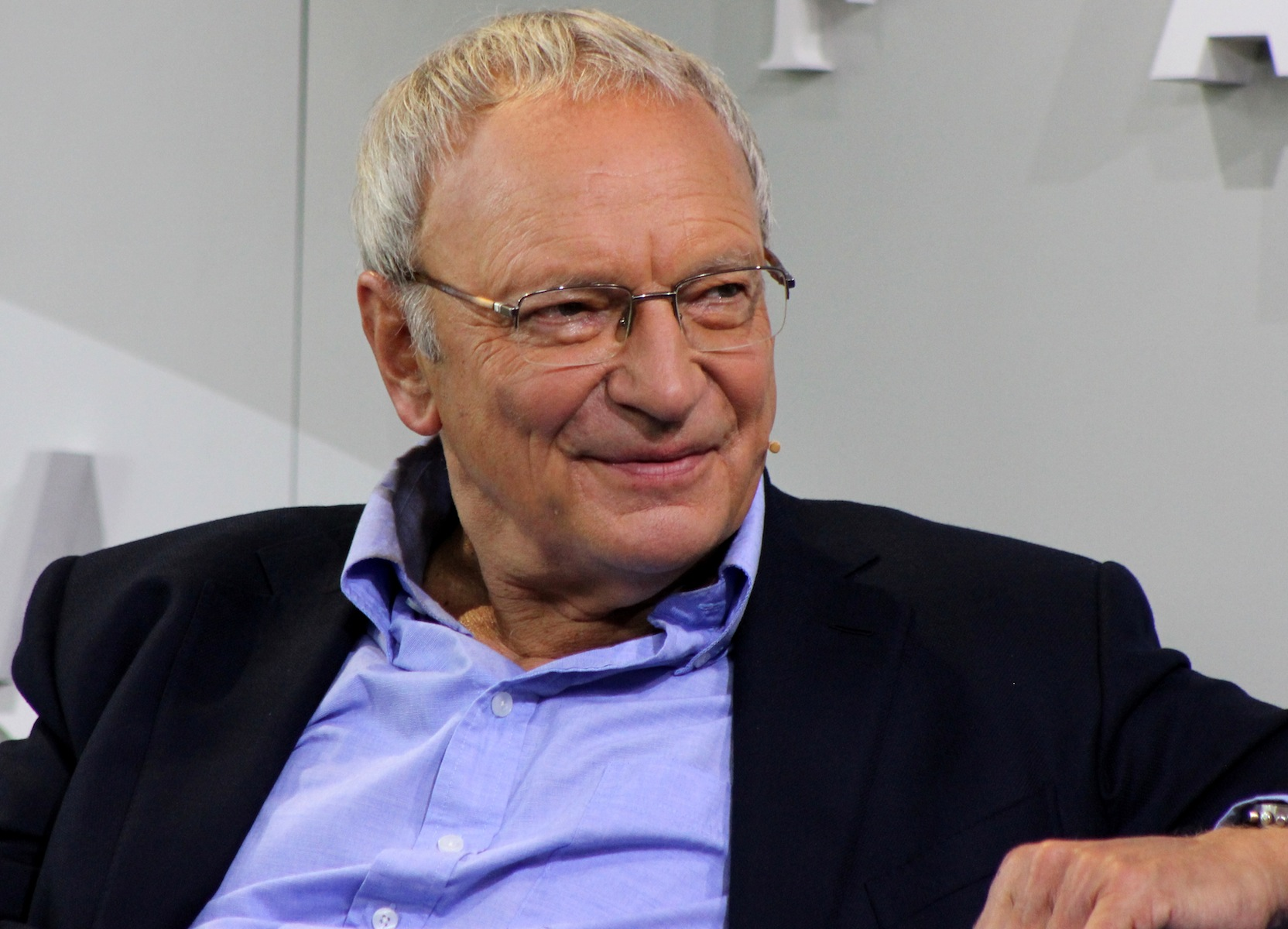 Uwe Timm, Frankfurt Book Fair 2013